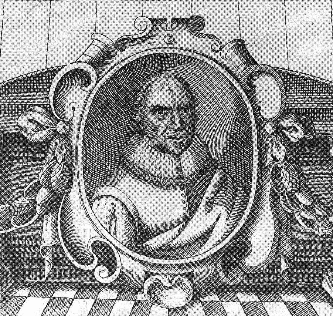 Portrait engraved by Thomas Cockson of John Taylor, the Water Poet, from the frontispiece of his 1630 poetry anthology